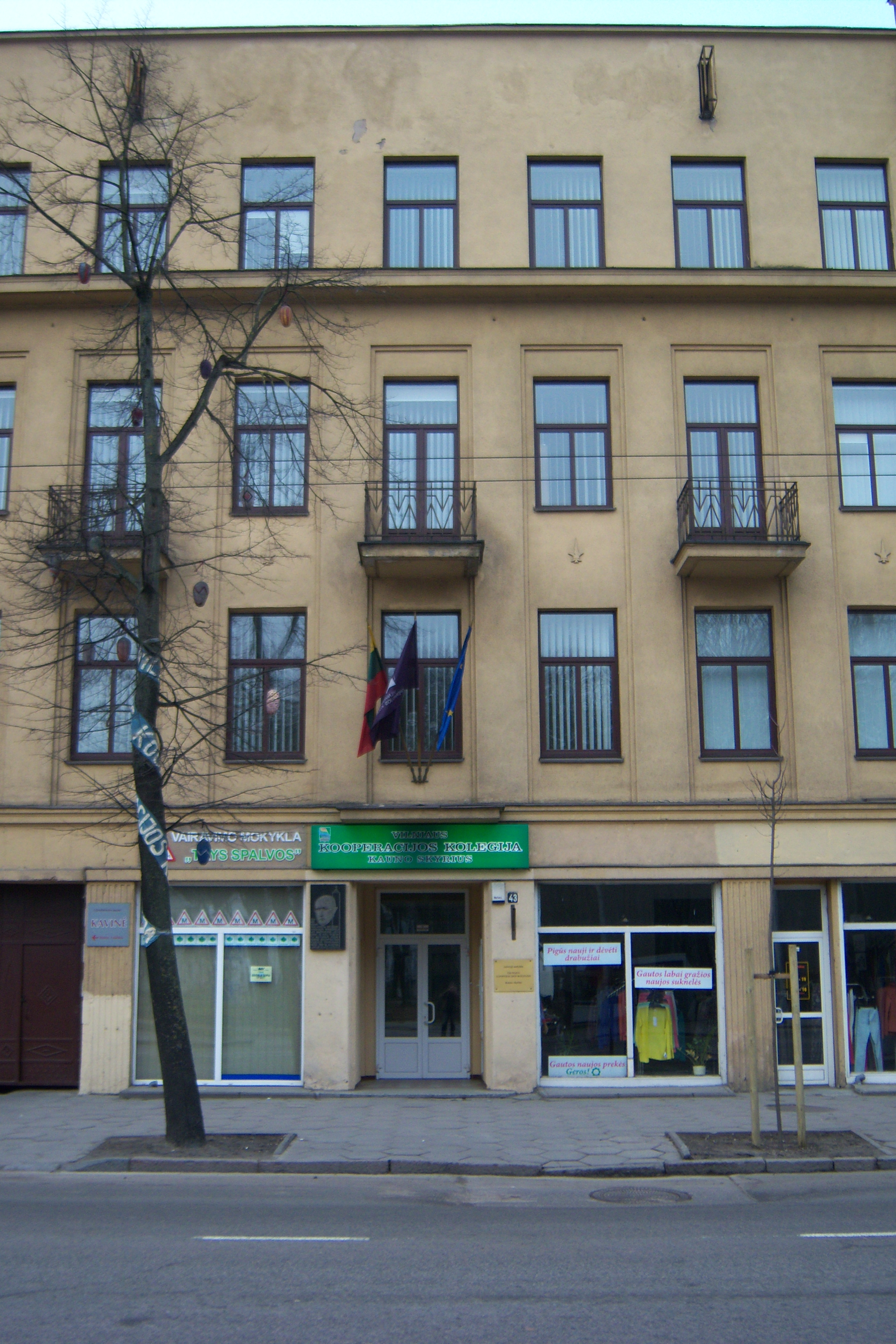 Vilnius Cooperative College in Kaunas, Lithuania